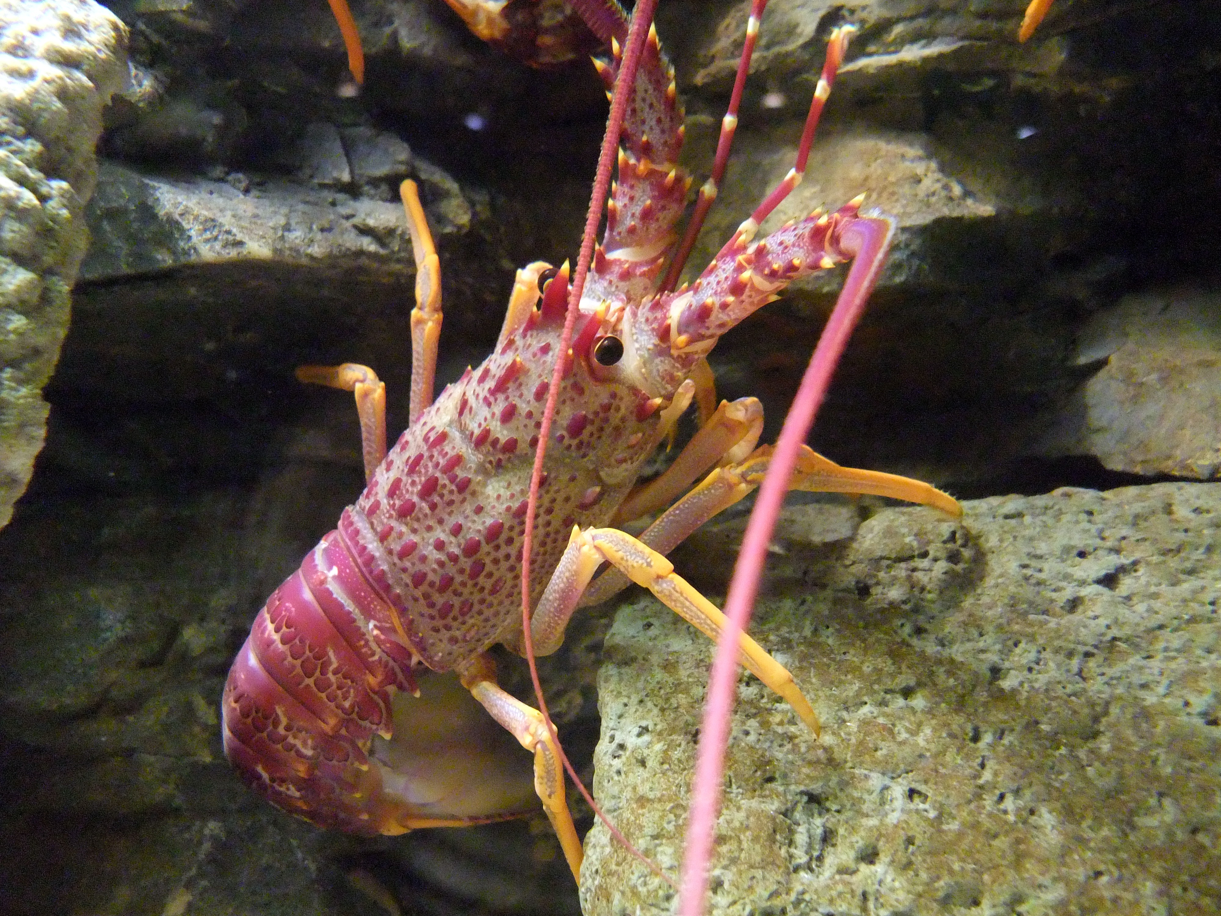 Southern rock lobster, Jasus edwardsii, at Southern Encounter Aquarium, Christchurch, New Zealand